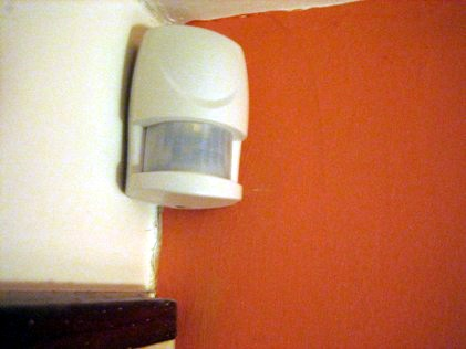 Picture of a burglar alarm detection point.